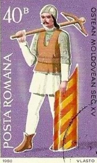 Romanian stamp representing a Moldovan soldier from XV century